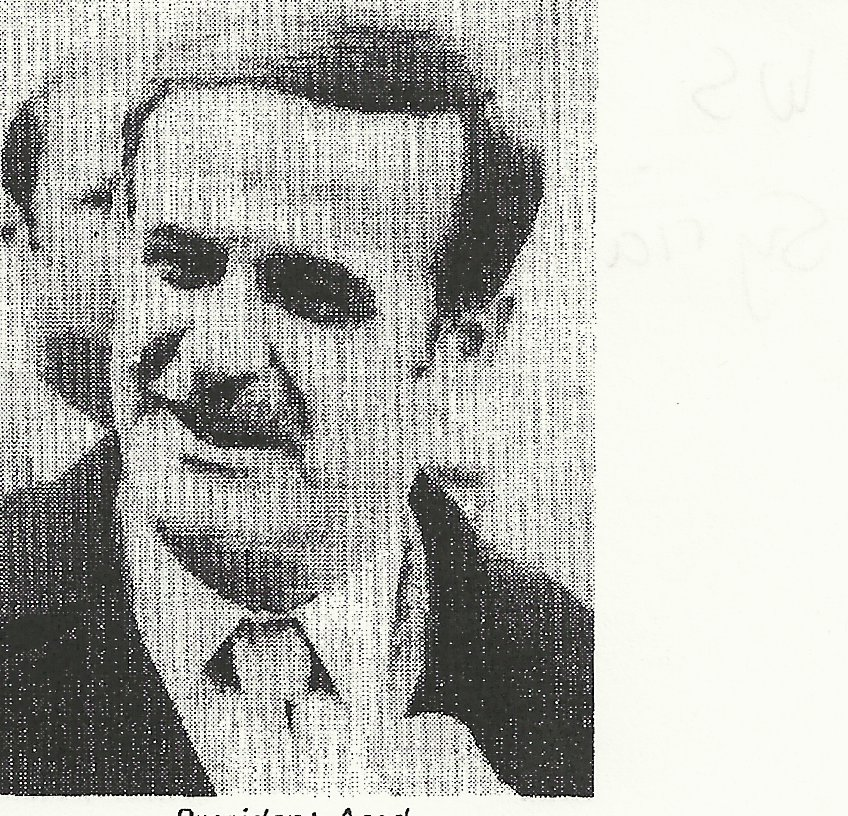 Photo courtesy of the DI Weekly Summary